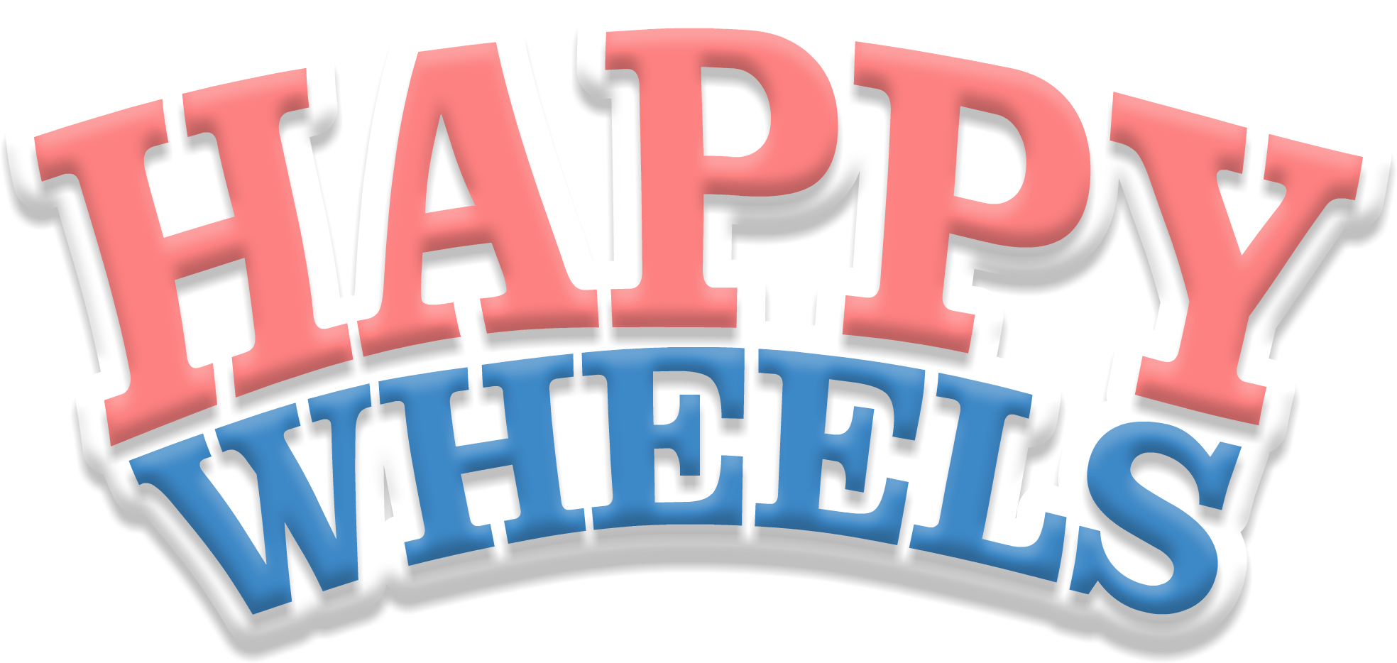 Logo of Happy Wheels